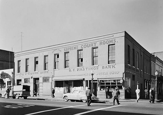 B. F. Hastings Bank Building, 128-132 J Street, Sacramento (Sacramento County, California)(cropped). This structure, erected in 1852–53, was occupied during the 1850’s by the B.F. Hastings Bank, Wells Fargo and Co., Various state officials, Sacramento Valley Railroad, and the Alta Telegraph Co. during April 1860–May 1861.